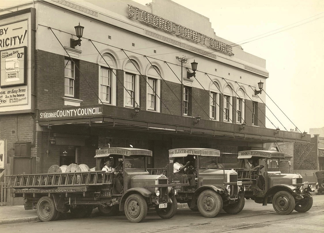 Poster Contest